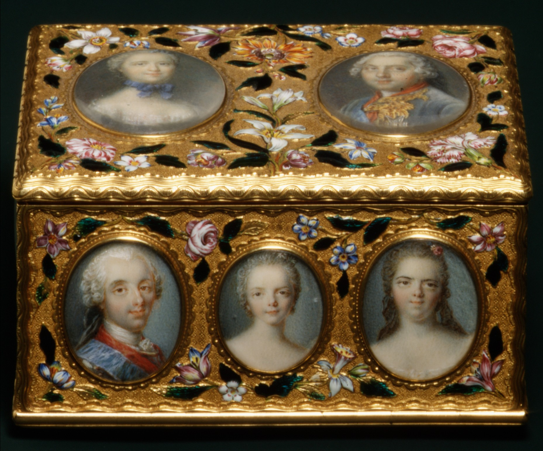 French, Paris; Snuffbox; Metalwork-Gold and Platinum